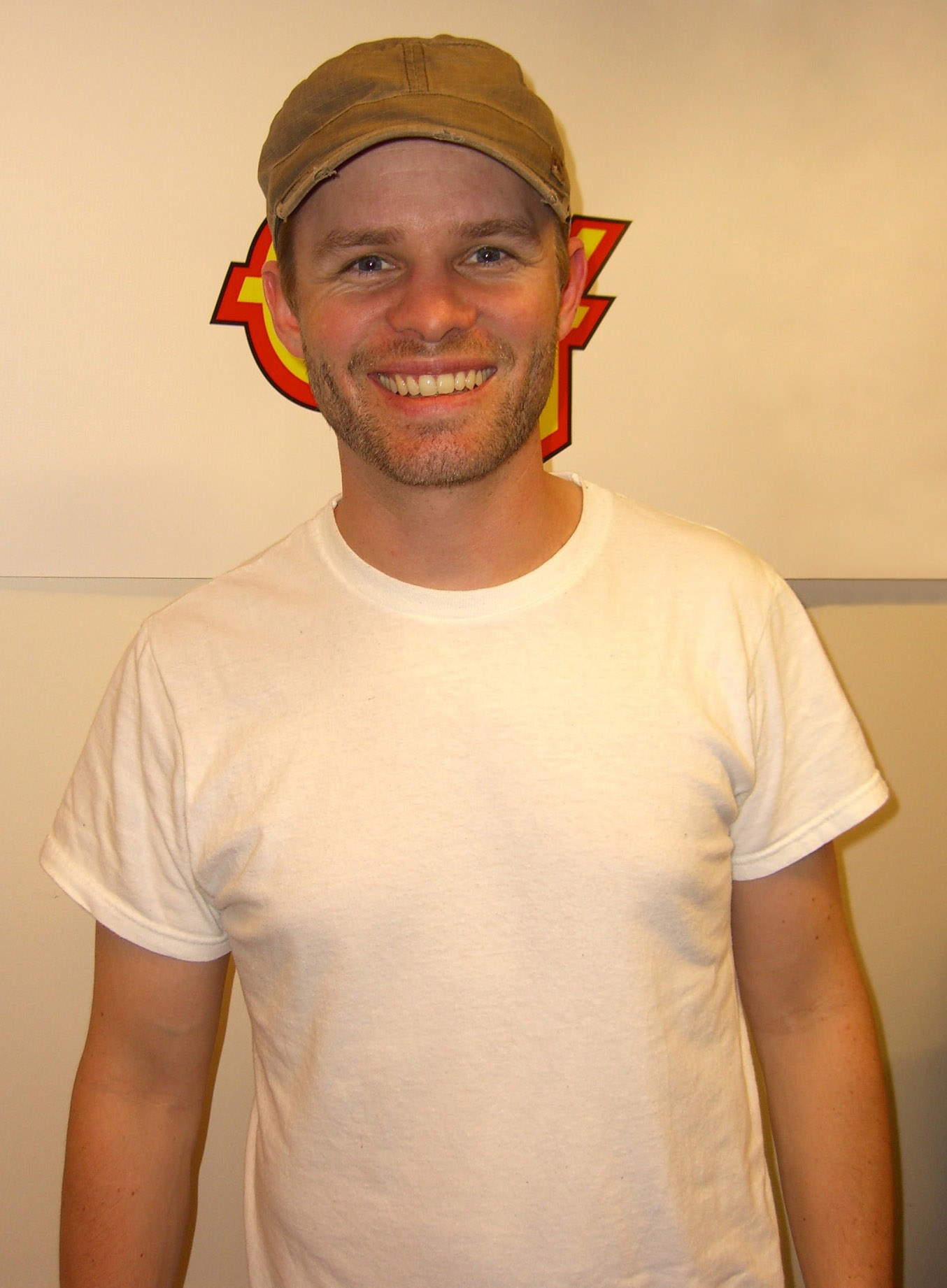 Television personality Chris Raab at the Big Apple Convention in Manhattan, May 21, 2011. Photographed by Luigi Novi. This photo is not in the public domain. It may, however, be used, modified and published for any purpose, free of charge, only if the photographer is properly credited, either by linking the photograph to this page, or with an easily visible credit to the photographer placed near the photo in each instance in which it is used. (See licensing information below.) Publication of this photo without this proper attribution constitutes copyright infringement. If you have any questions, you can contact me on my Wikipedia Talk Page.